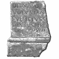 Altar for t. Augusti, AD 251-253, Built into a cattle-shed at Herd Hill, about 1.6 km. west of Bowness. Sought in vain by R. G. C., 1928. Sought in vain by R. P. W., 1941. Now lost.